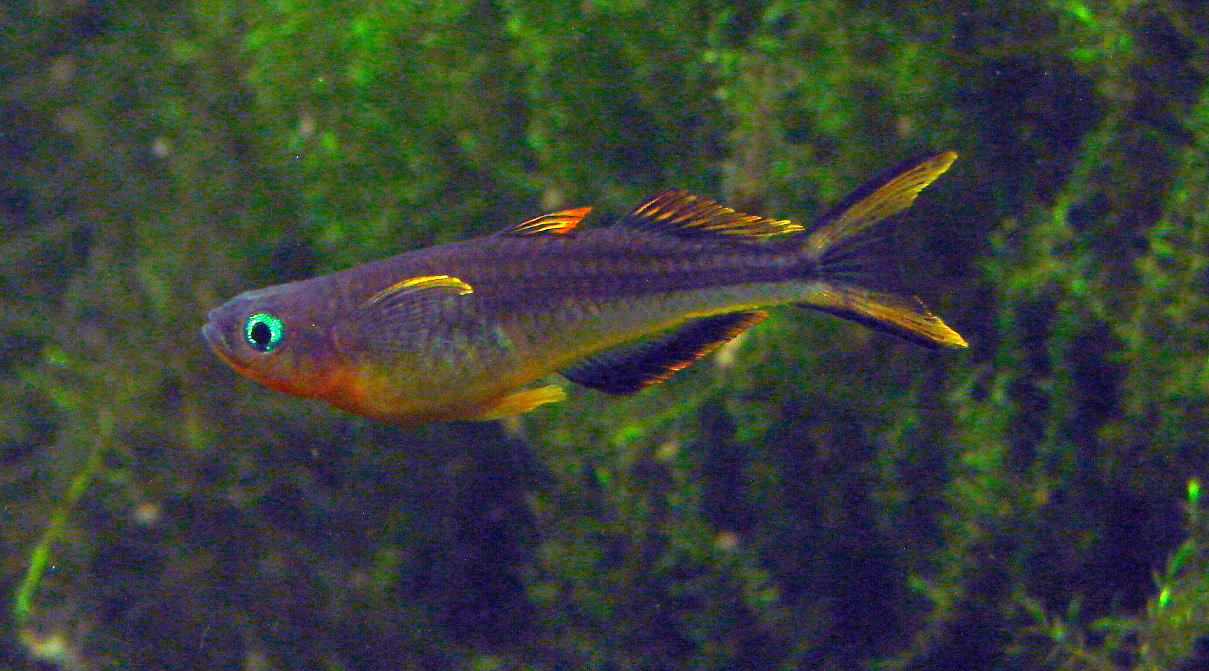 Picture taken in the zoo of Wrocław (Poland): Pseudomugil furcatus (Nichols, 1955)